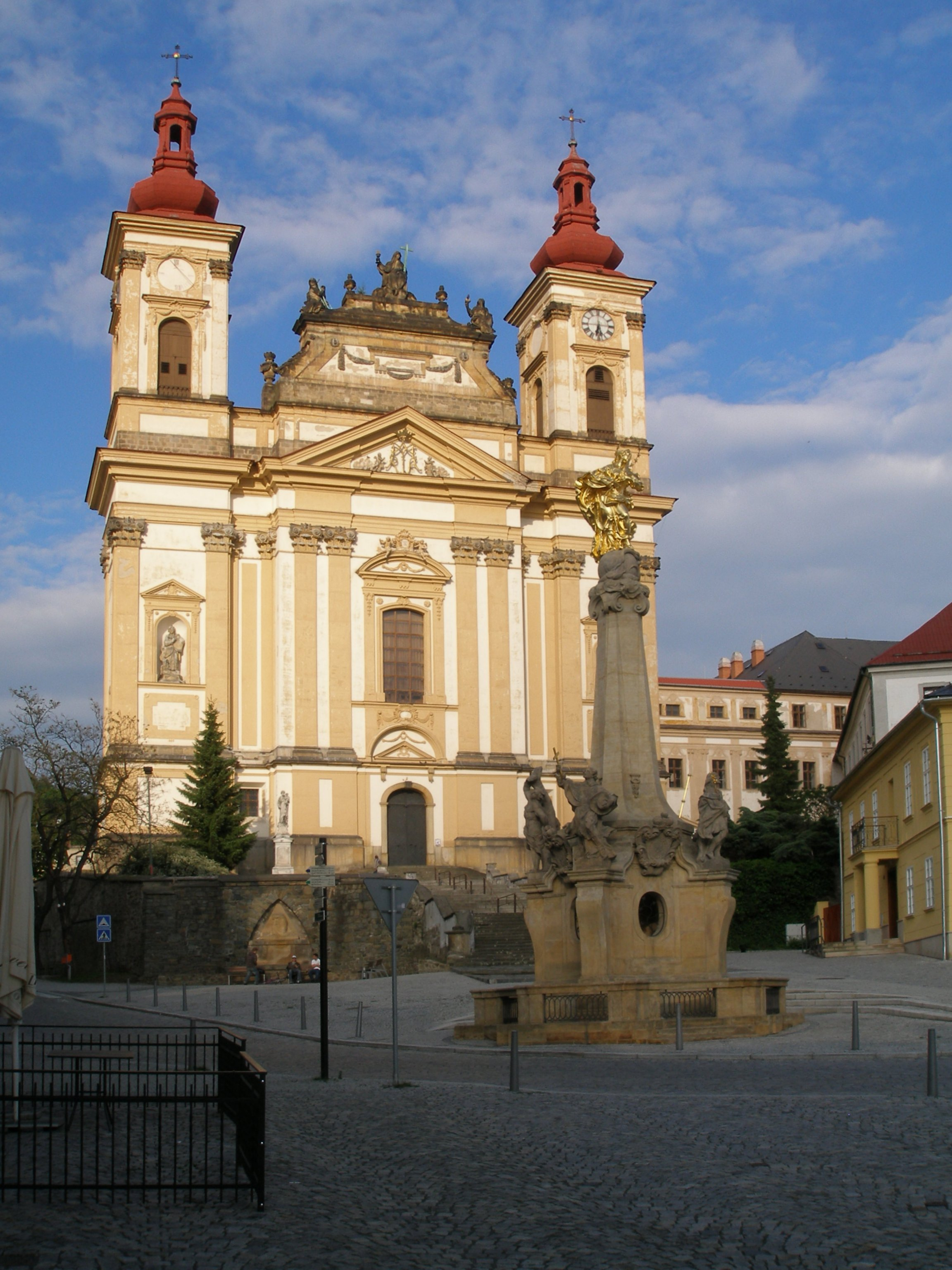 Šternberk (in Moravia) - Church of the Annunciation and Marian column